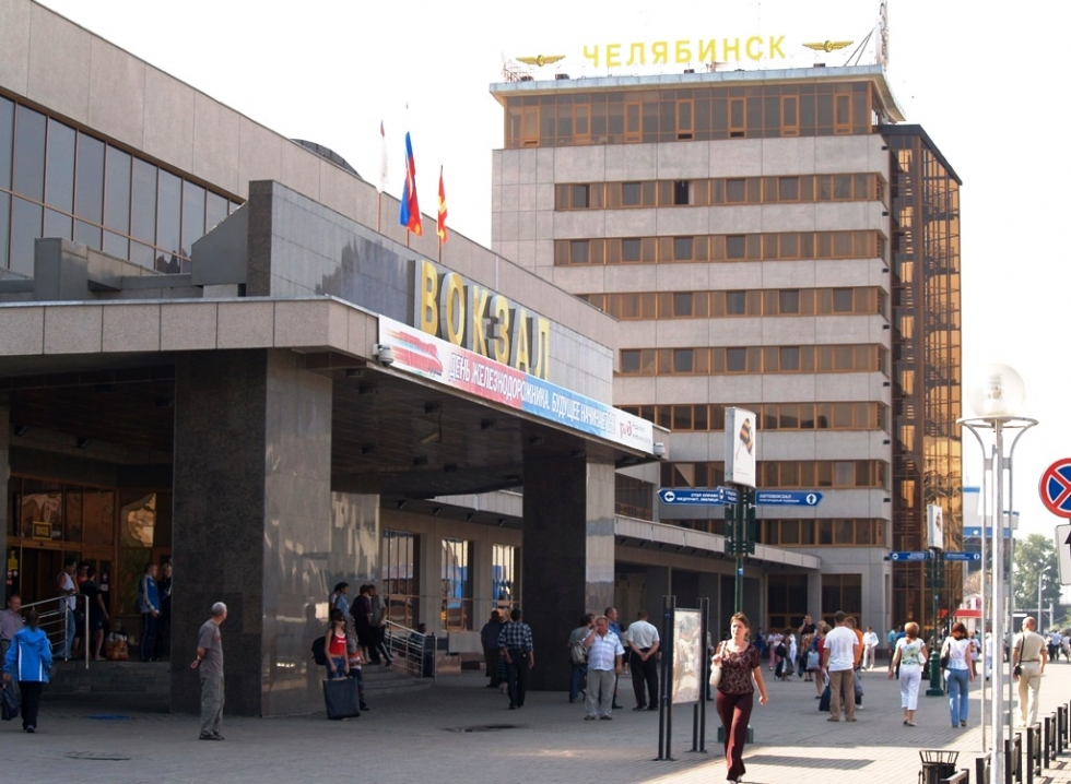 Chelyabinsk Railway Station Building